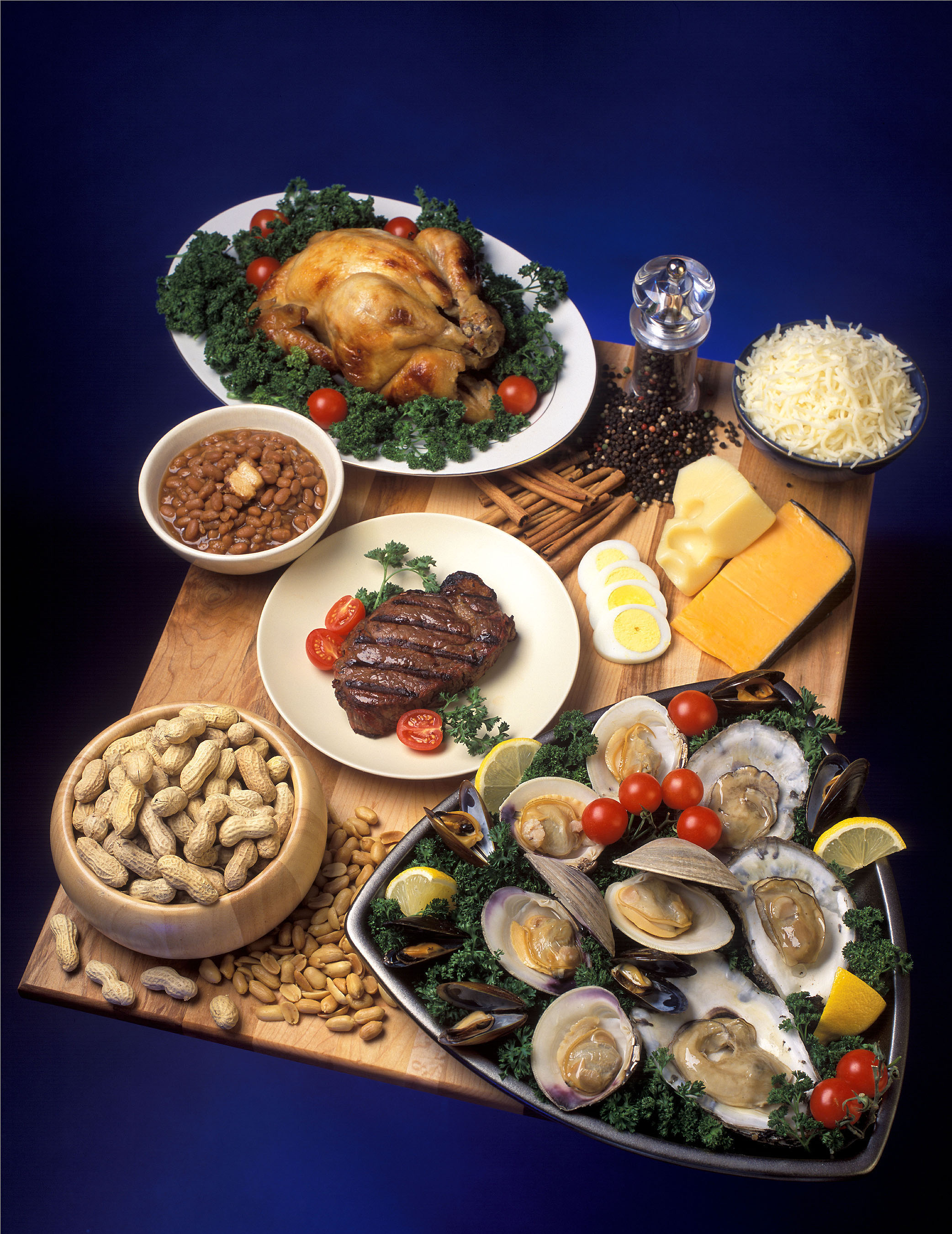 Zinc is an essential mineral that has many functions in the human body. You can get your zinc from many foods, such as oysters (6 medium), 76.28 mg; beef, top sirloin, broiled (3 oz.), 4.97 mg; and peanuts, dry roasted (1 oz.), 0.94 mg. (Source: USDA Nutrient Database for Standard Reference, Release 14.) ARS scientists are studying how zinc gets transported throughout the body and how iron supplements might affect zinc absorption.